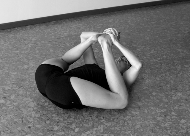 Photo of the Yin Yoga pose, Stirrup or Happy Baby, in which the subject is on her back holding onto her feet which are up above her